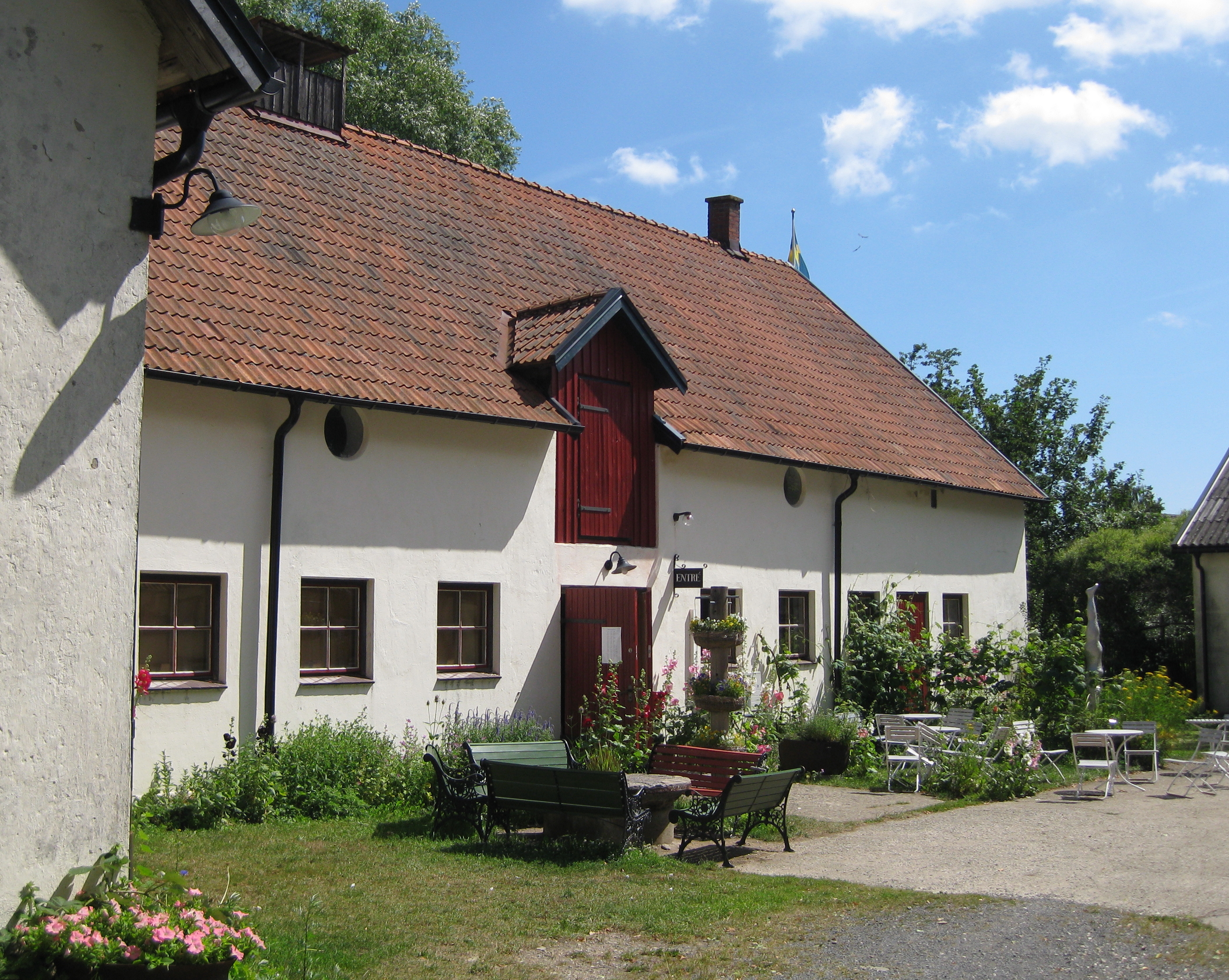 Skillinge Theatre in Skillinge, Scania, Sweden